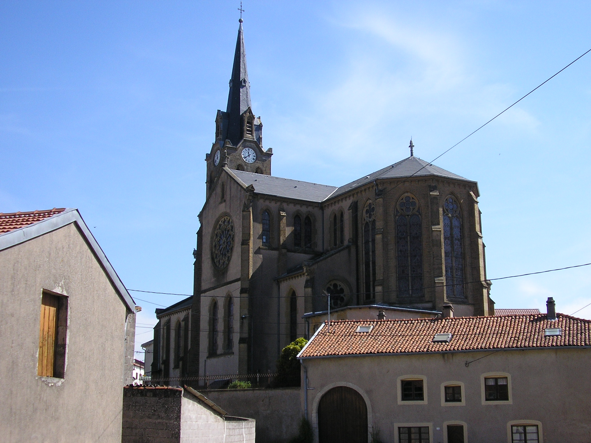 Church of Béchy, France